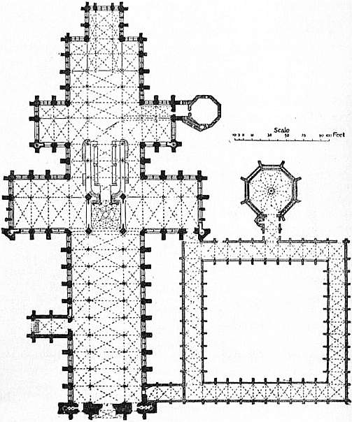 Fig. 2.—Plan of Salisbury Cathedral from Encyclopædia Britannica 1911